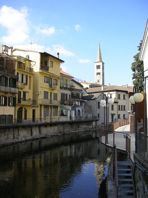 Omegna in Piemonte Italy picture taken by user:Idéfix march 25, 2006